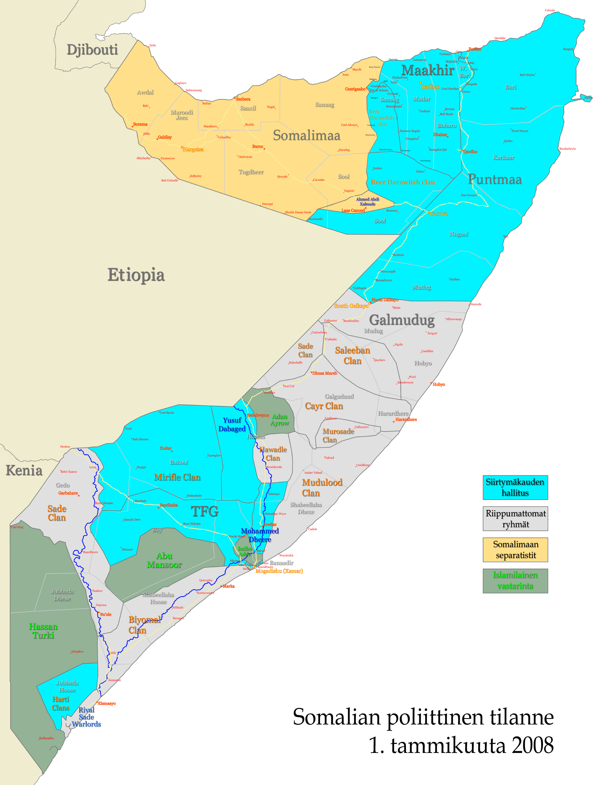 Political situation of Somalia as of Jan 1, 2008 (finnish version of the original image)